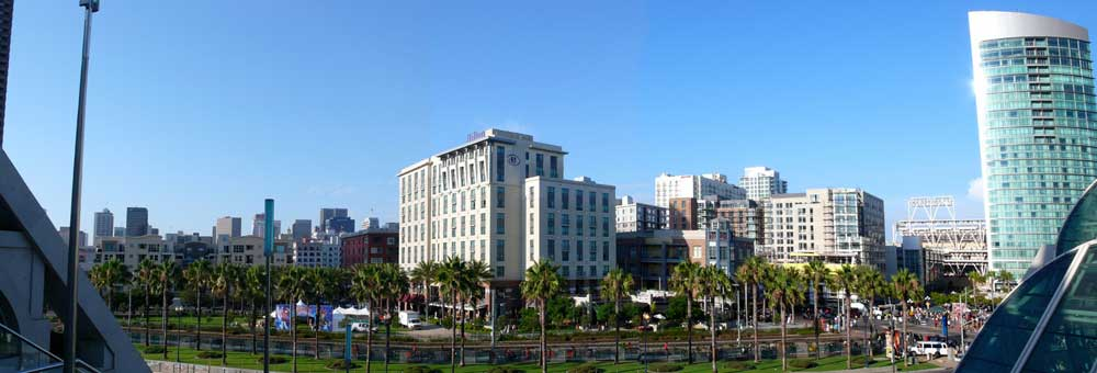 Panoramic view of the Gaslamp Quarter from the San Diego Convention Center, with the Hilton Gaslamp Quarter in the center and Petco Park and the Metropolis at the Omni Hotel to the far right.